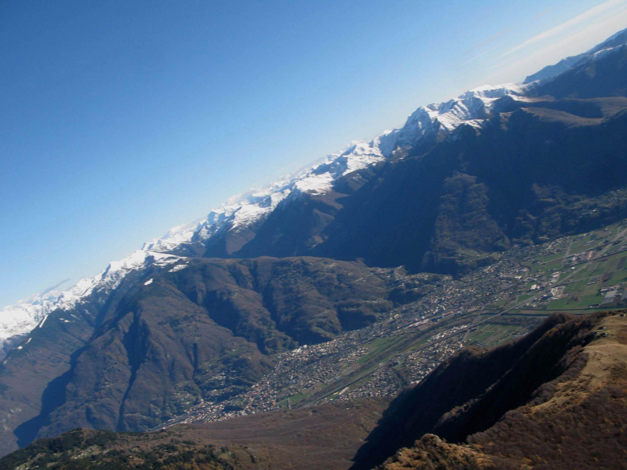 Hang gliding above Giubiasco, Ticino, Switzerland